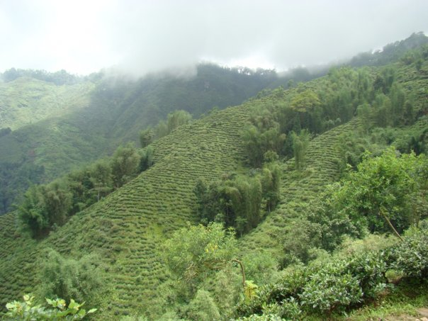 Avongrove Tea estate: The hills are a lush green with Avongrove’s carefully nurtured bushes.